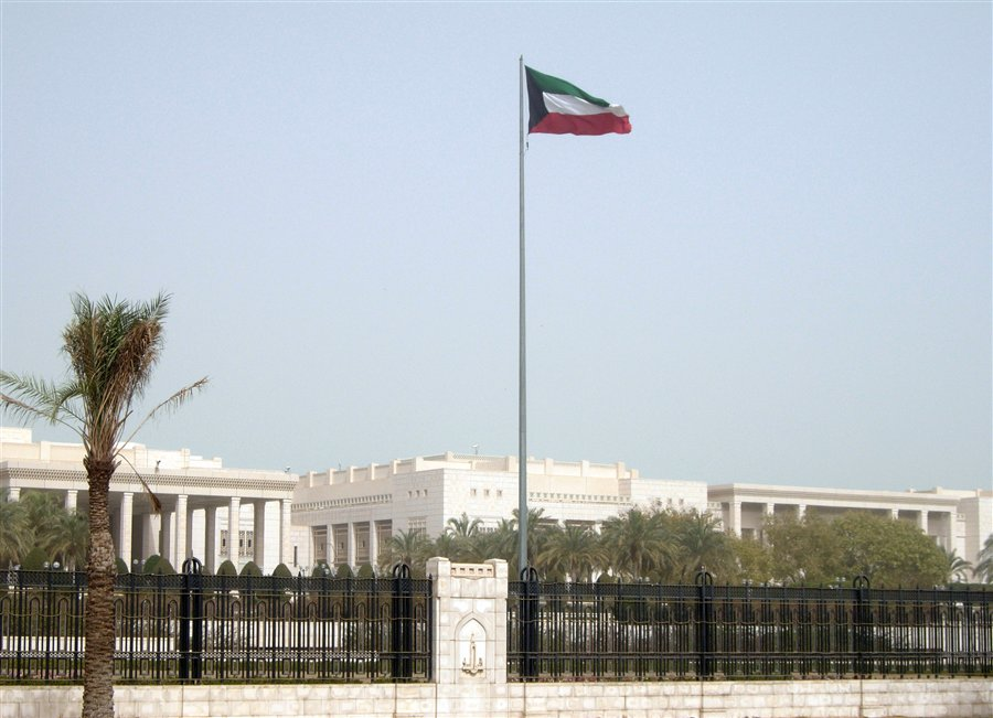 Picture of the third extension of Alseif palace